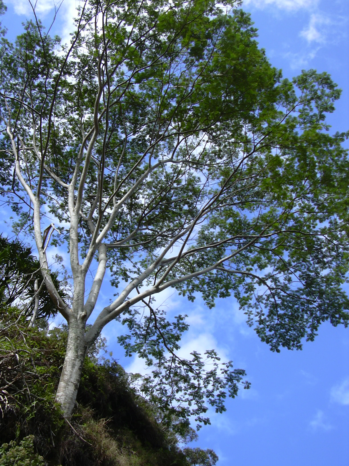 Falcataria moluccana (on steep slope). Location: Maui, Hana Hwy